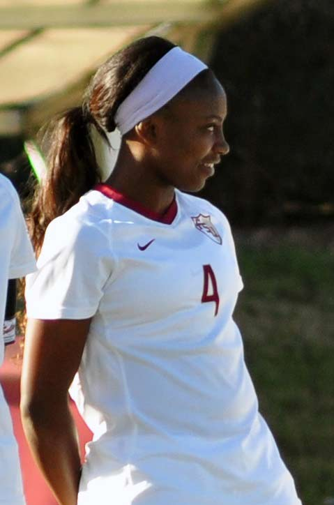 Pregame FSU Soccer vs BC